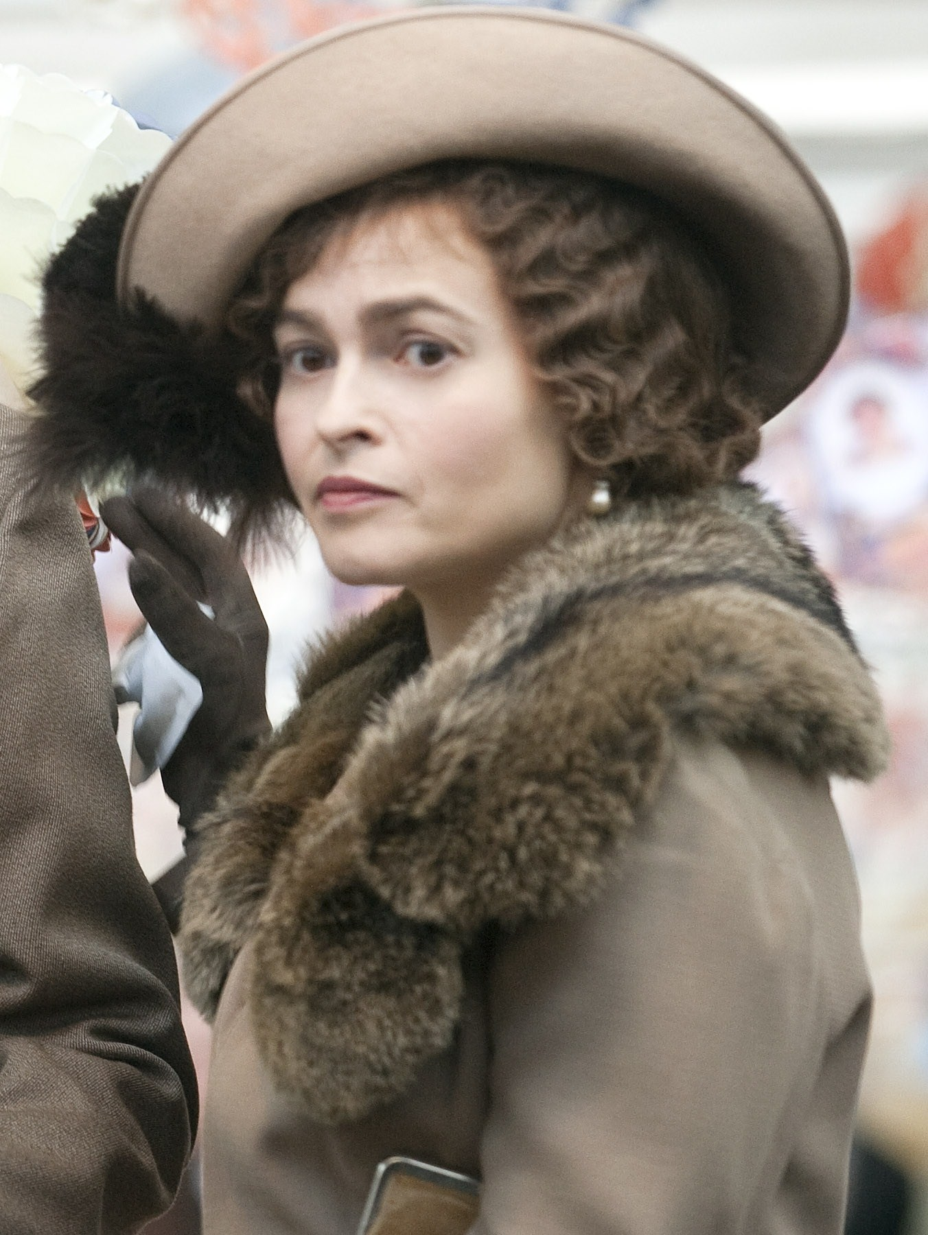 Helena Bonham Carter filming The King's Speech at Queen Street Mill Textile Museum